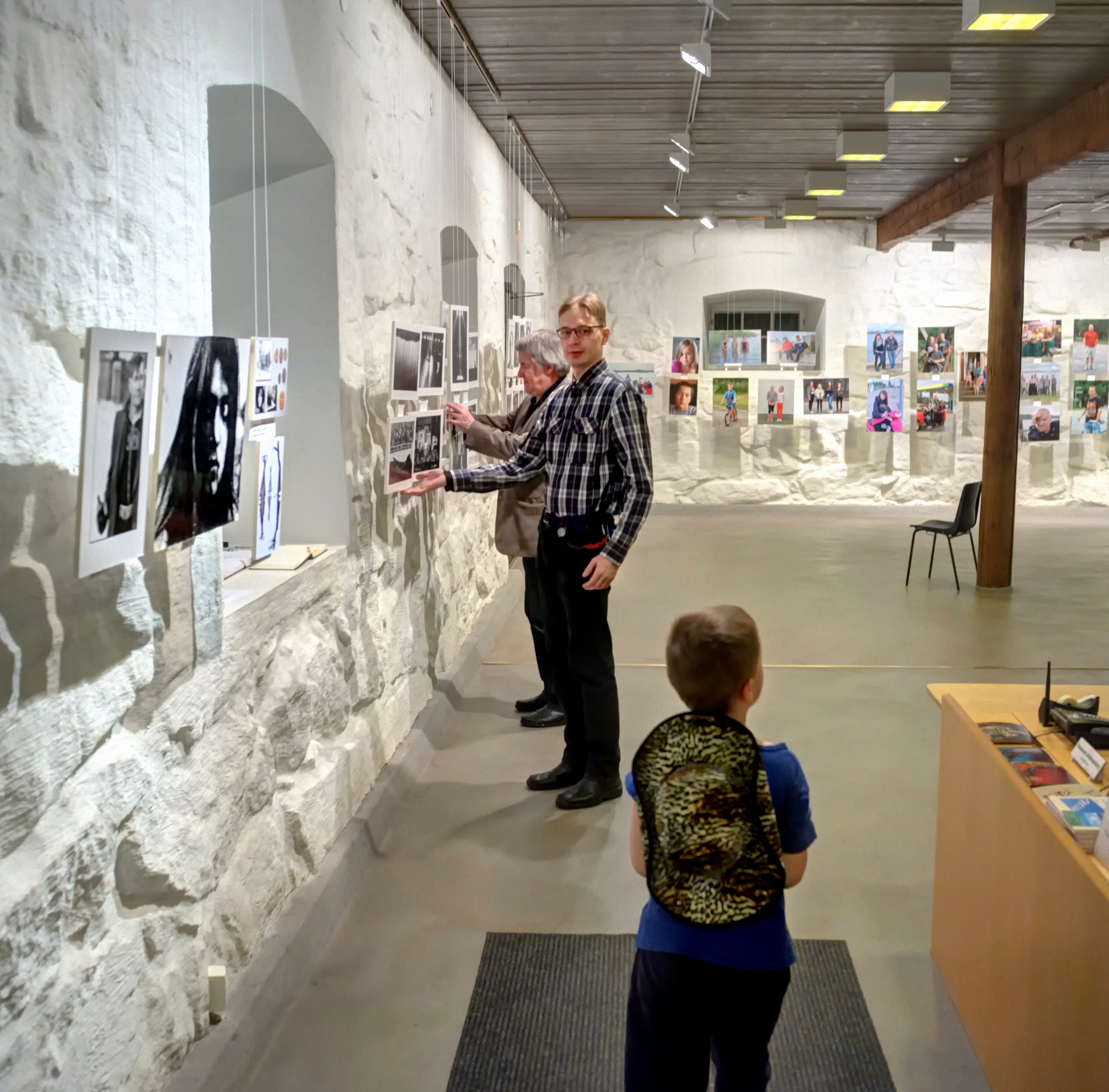 Jussi Aalto and Jirka Veikkanen in Galleria Pihatto February 2nd 2016